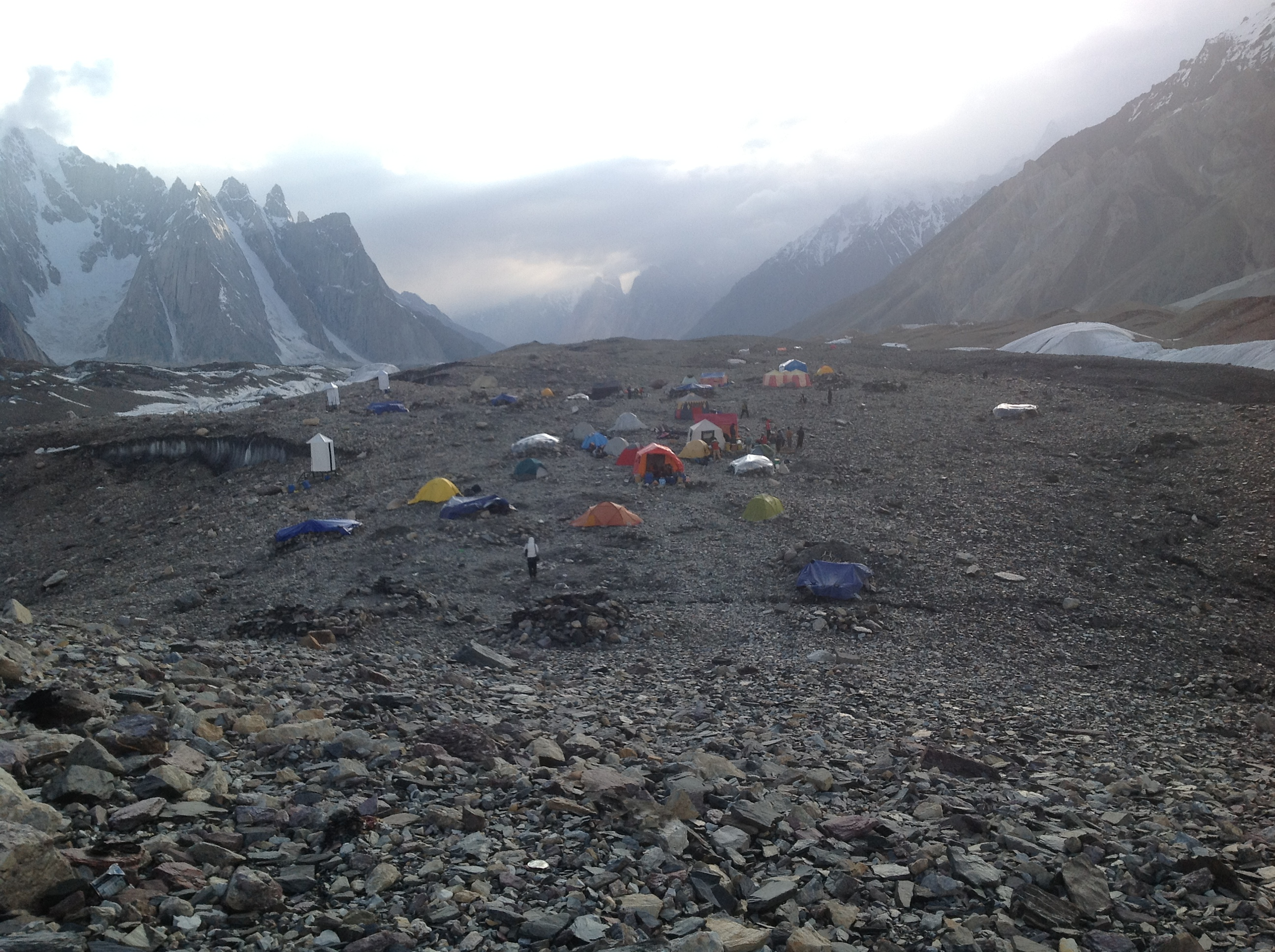 View of Concordia, looking west